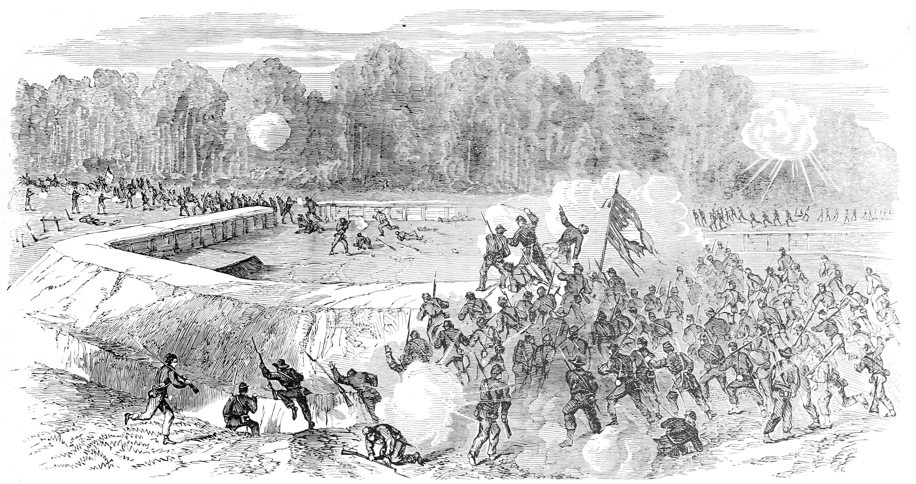 Engraving captioned "Grant's Movement South of the James-Battle of Poplar Spring Church-Gallant Charge of a Part of the Fifth Corps on the Confederate Fort, September 30th, 1864". From Frank Leslie's Scenes and Portraits of the Civil War (1894) available at the Internet Archive. (image cleaned and cropped).